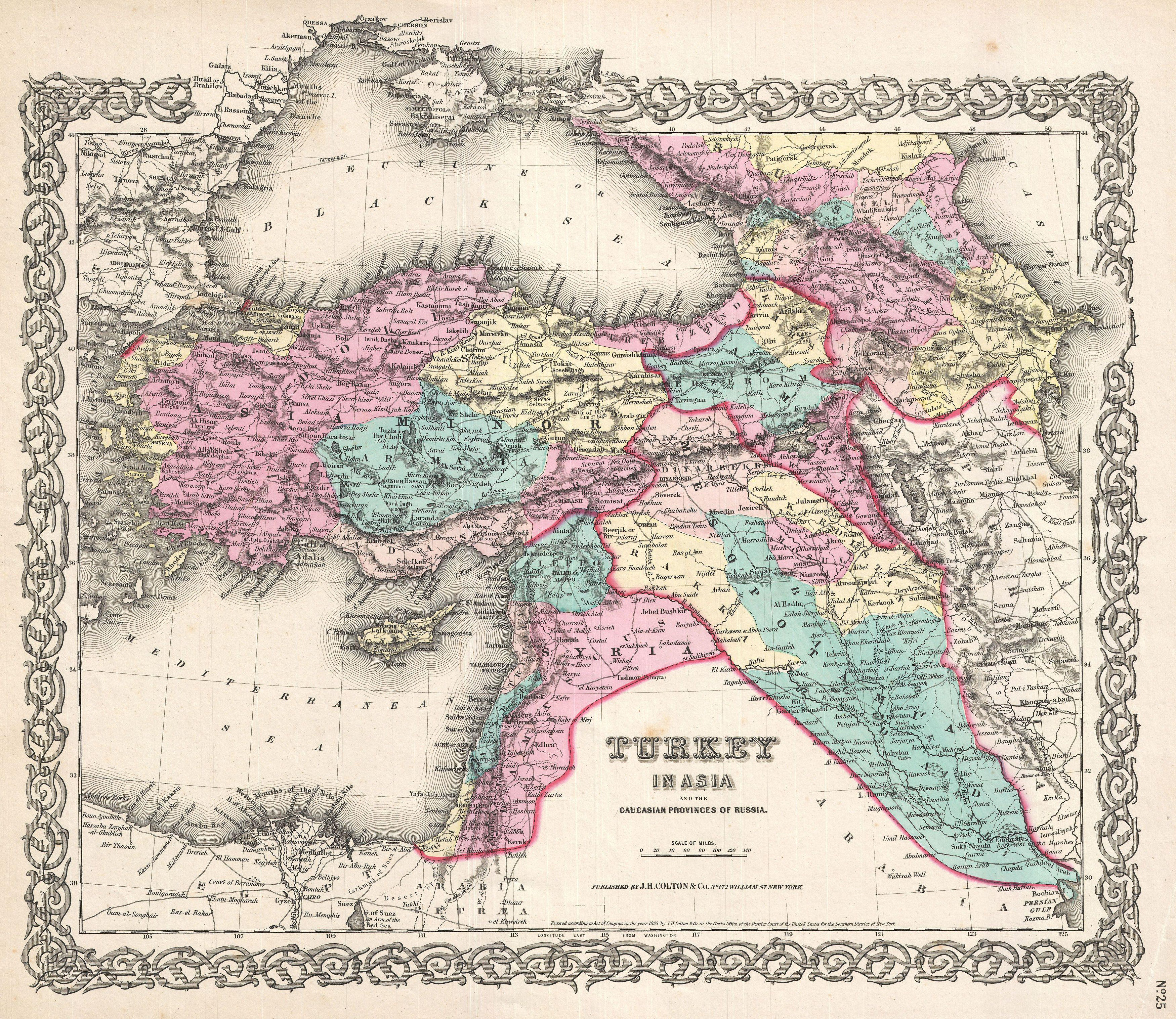 A beautiful 1855 first edition example of Colton's map of the Ottoman Empire (Turkey) in Asia and the Caucuses. Covers from the Crimea south to the Nile Delta, west as far as the Aegean, and east to the Caspian Sea and the Persian Gulf. Basically covers the mid 19th century claims of the Ottoman Empire, however, includes the modern nations of Turkey, Iraq, Kuwait, Syria, Jordan, Israel or Palestine, Armenia, Georgia, and Azerbaijan, with parts of adjacent Iran, Greece, Egypt and Ukraine. Throughout the map, Colton identifies various cities, towns, forts, rivers, desert oases, and an assortment of additional topographical details. Surrounded by Colton's typical spiral motif border. Dated and copyrighted to J. H. Colton, 1855. Published from Colton's 172 William Street Office in New York City. Issued as page no. 25 in volume 2 of the first edition of George Washington Colton's 1855 Atlas of the World .